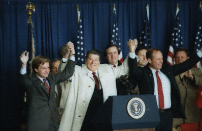 President Ronald Reagan with Bill Schuette and Jack Lousma at a Reagan-Bush rally in Saginaw, Michigan